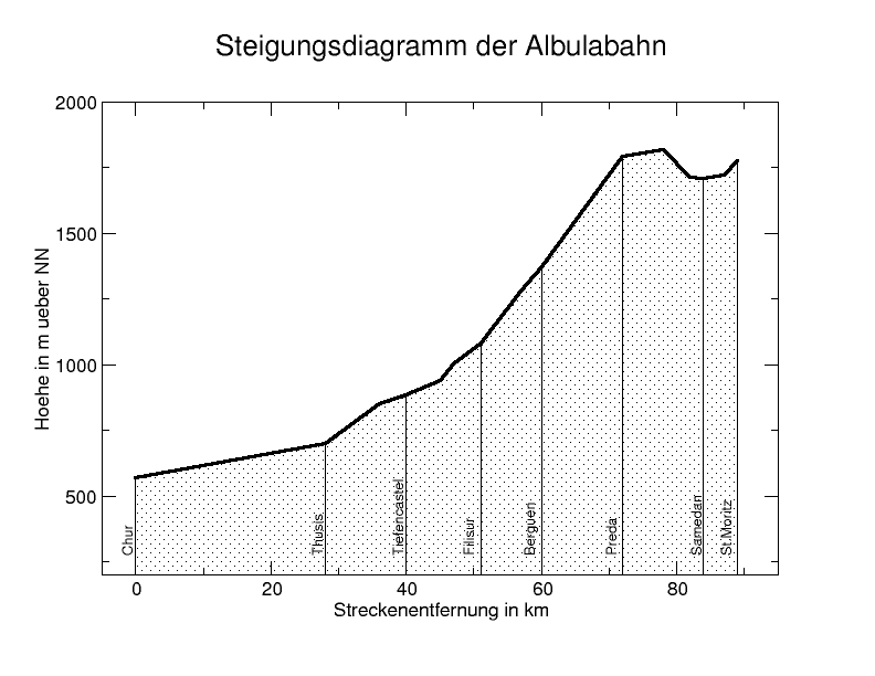 Deviation diagram of the Albula-railway in Switzerland